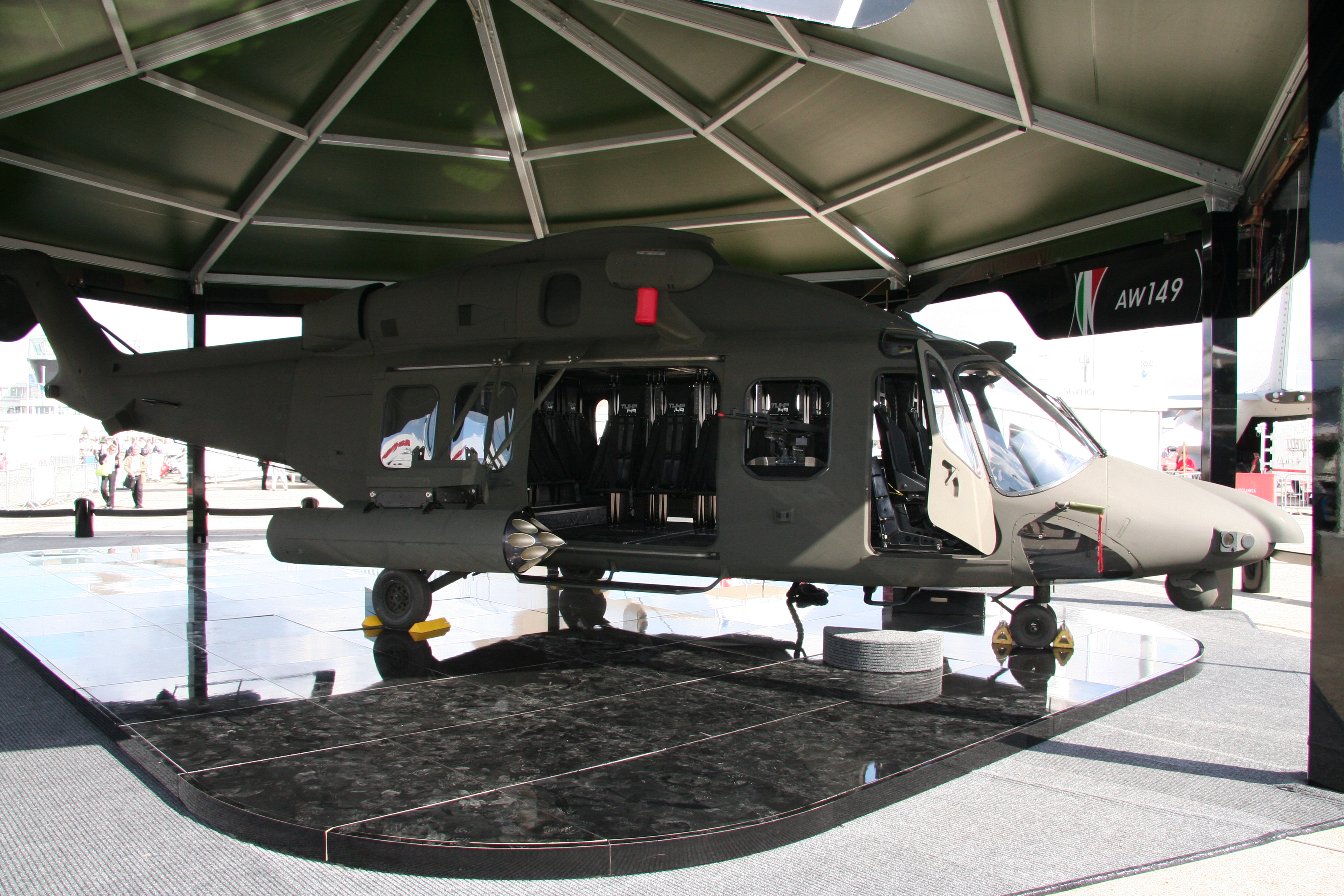 AgustaWestland AW149 - Paris Air Show 2009